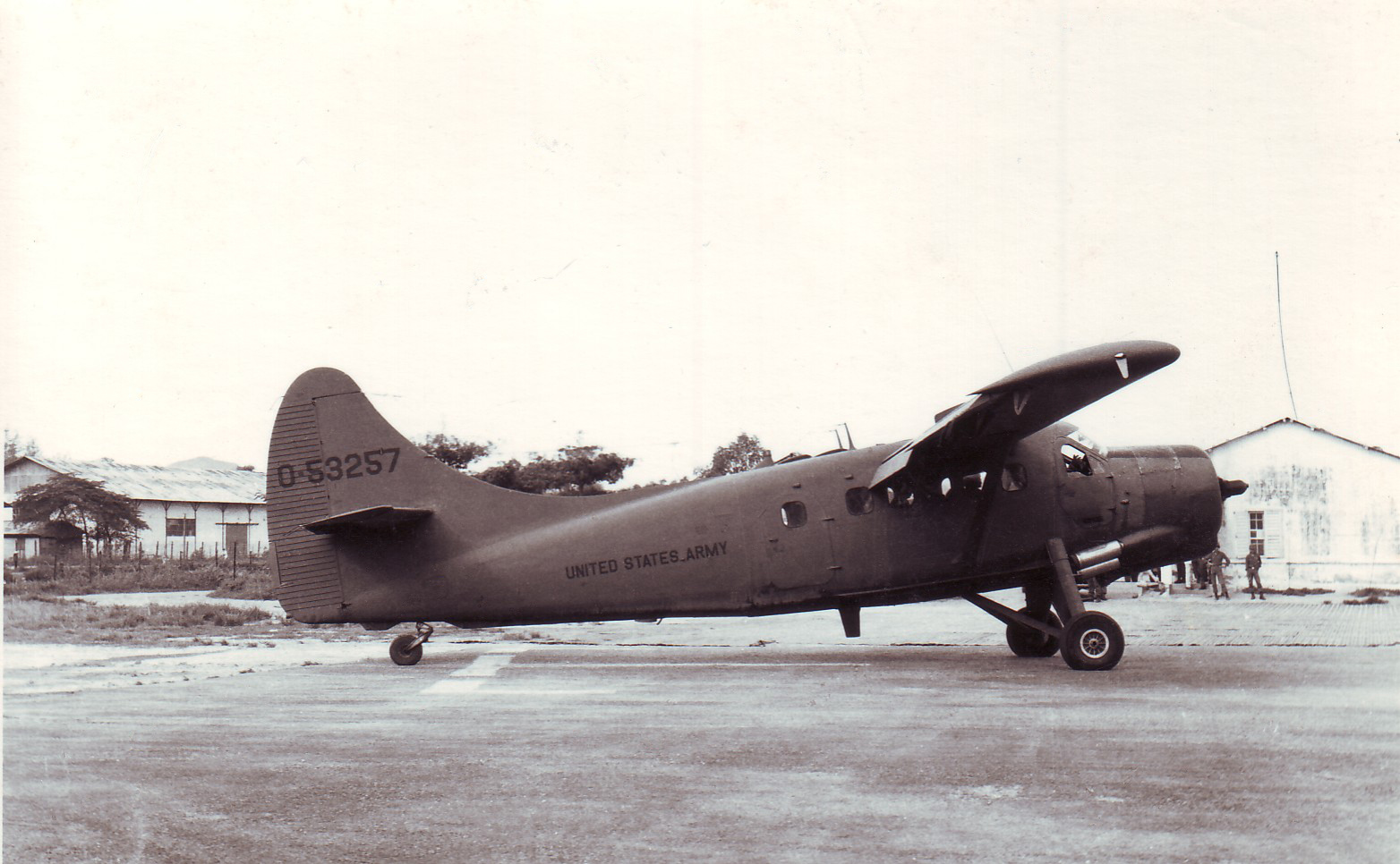 U.S. Army U-1A Otter Readying for Takeoff, Hue Citadel Airfield, Republic of Vietnam, July 1967